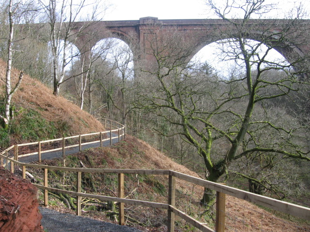 River Ayr Way